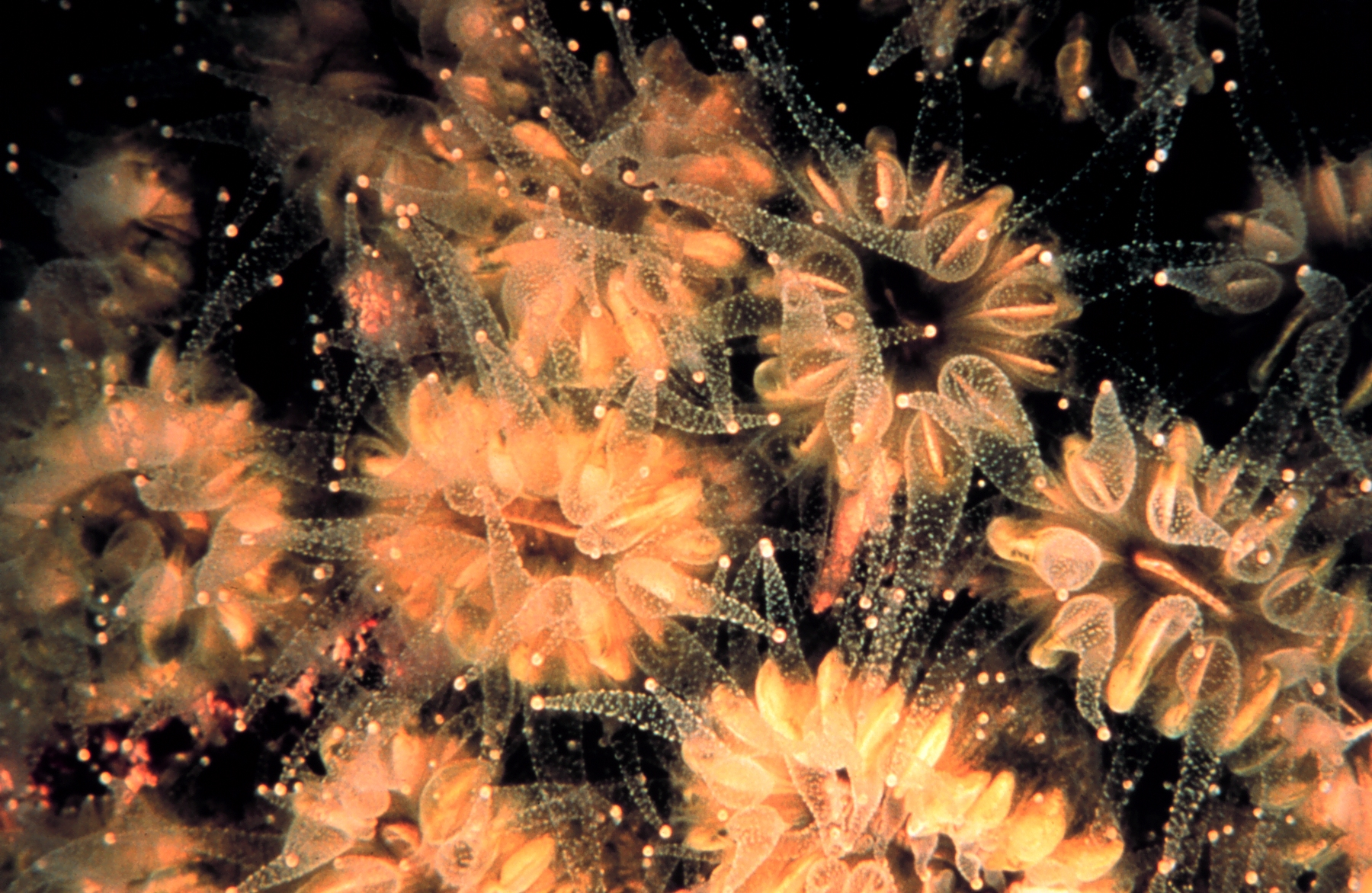 A Flower coral, Eusmilia fastigiata, at the Florida Keys National Marine Sanctuary. Image ID: reef2560, The Coral Kingdom Collection